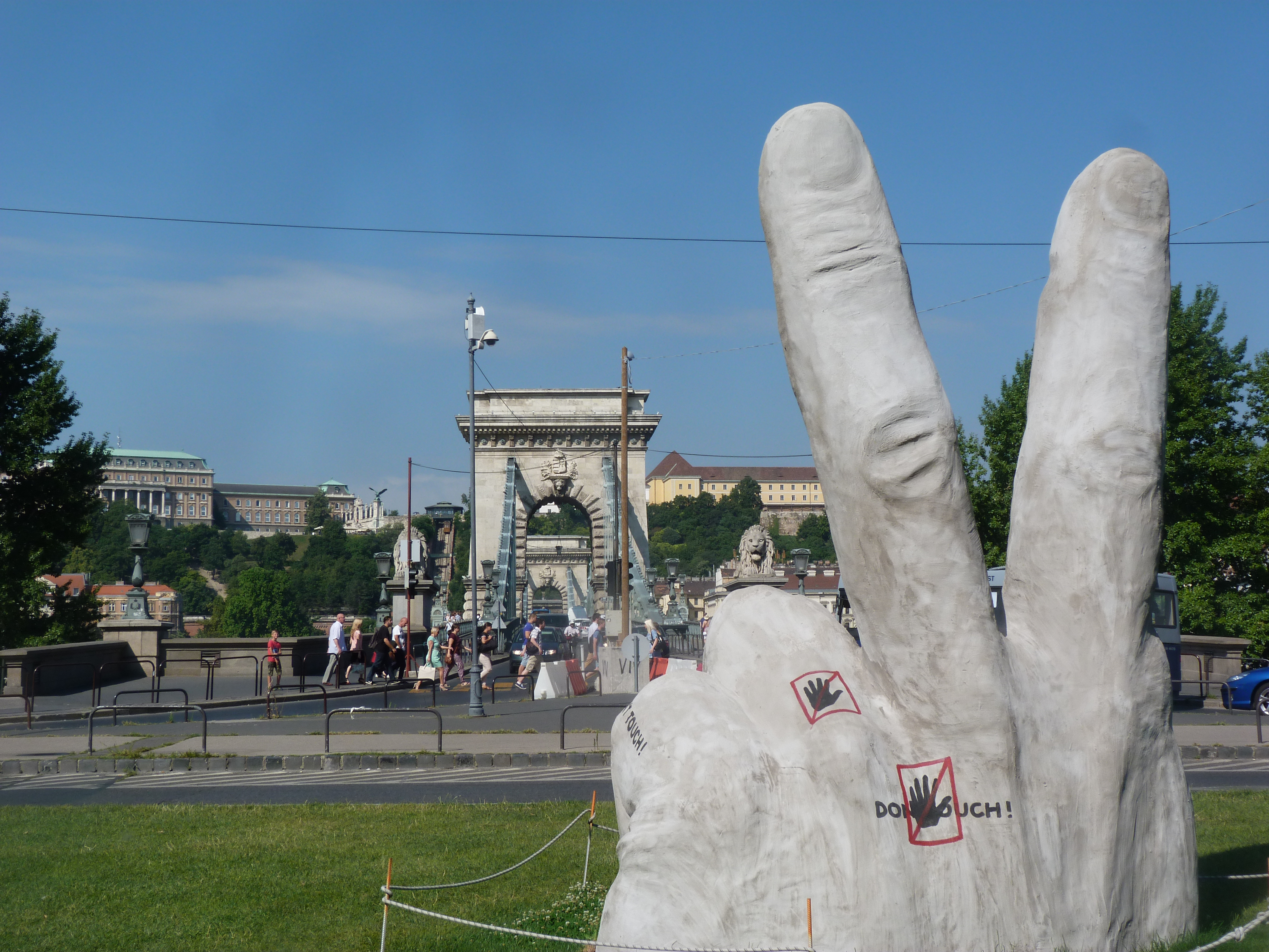 Live on the 21st of July, 2015. Széchenyi square, Downtown Budapest. Hervé UsStream – GooH Ervin Hervé - Lóránth. Streetart in Budapest.